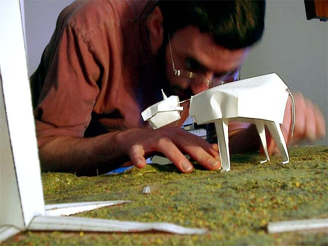 Director and animator Adam Bizanski working on his video clip for The Shins "Pink Bullets"